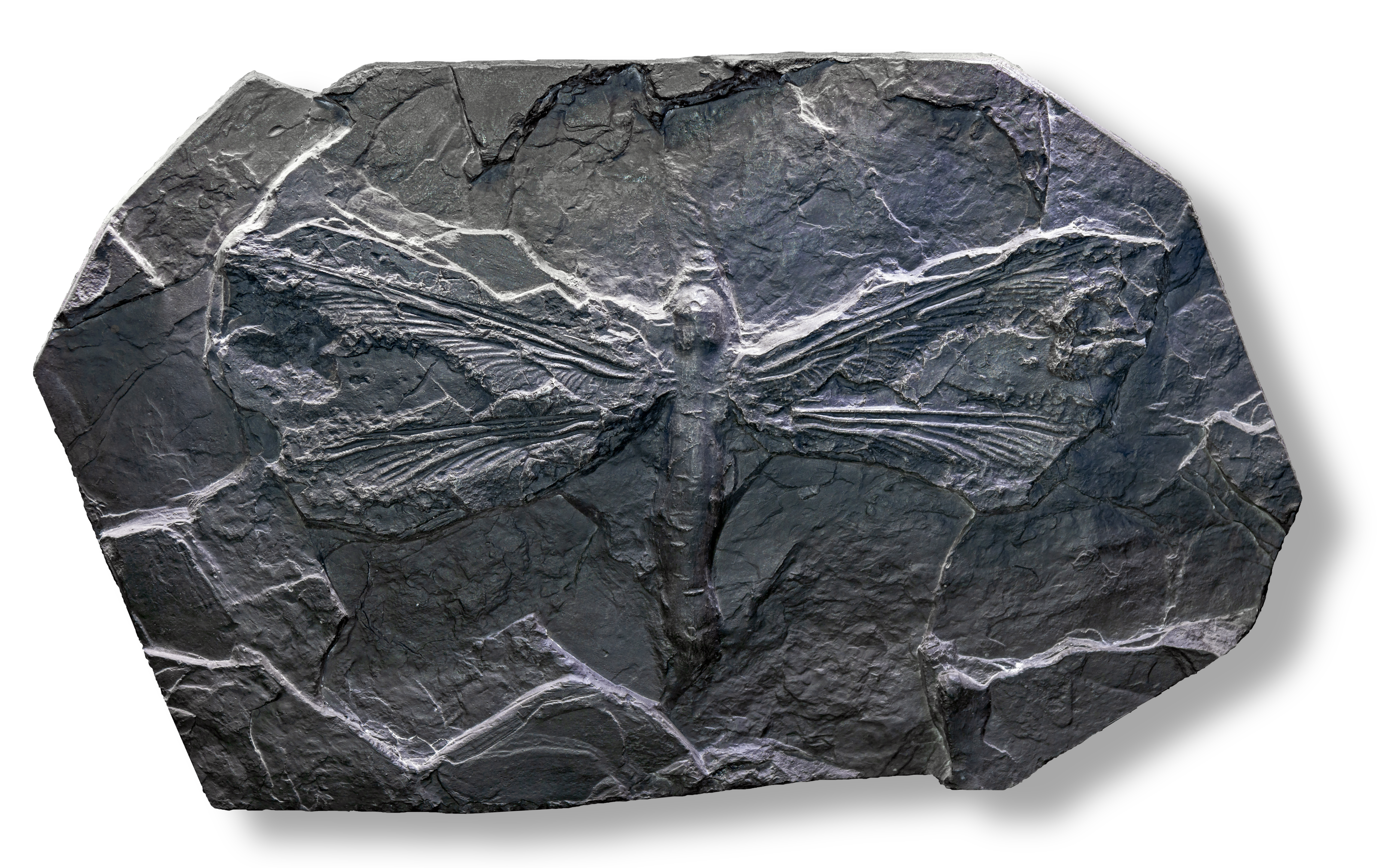 Reassembled paratype imprint specimen LdLAP 392, reposited at the Musée Fleury at Lodève. The wingspan is 68cm.